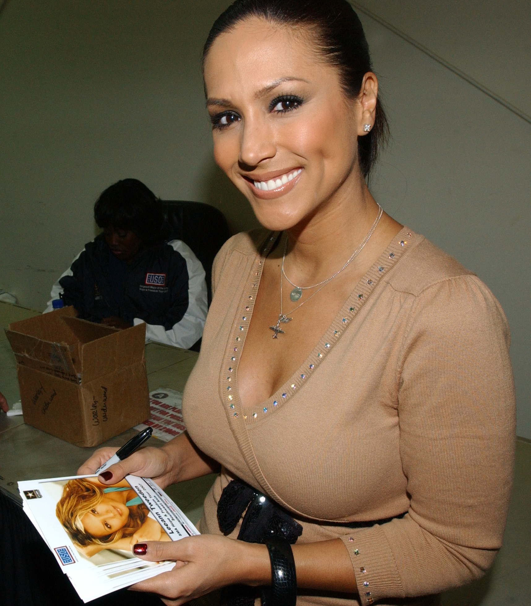 Leeann Tweeden signs autographed photos for service members at Camp Arifjan, Kuwait, Dec. 12. A host of stars and entertainers are traveling as a part of the Sgt. Maj. of the Army's Hope and Freedom tour to entertain deployed troops.